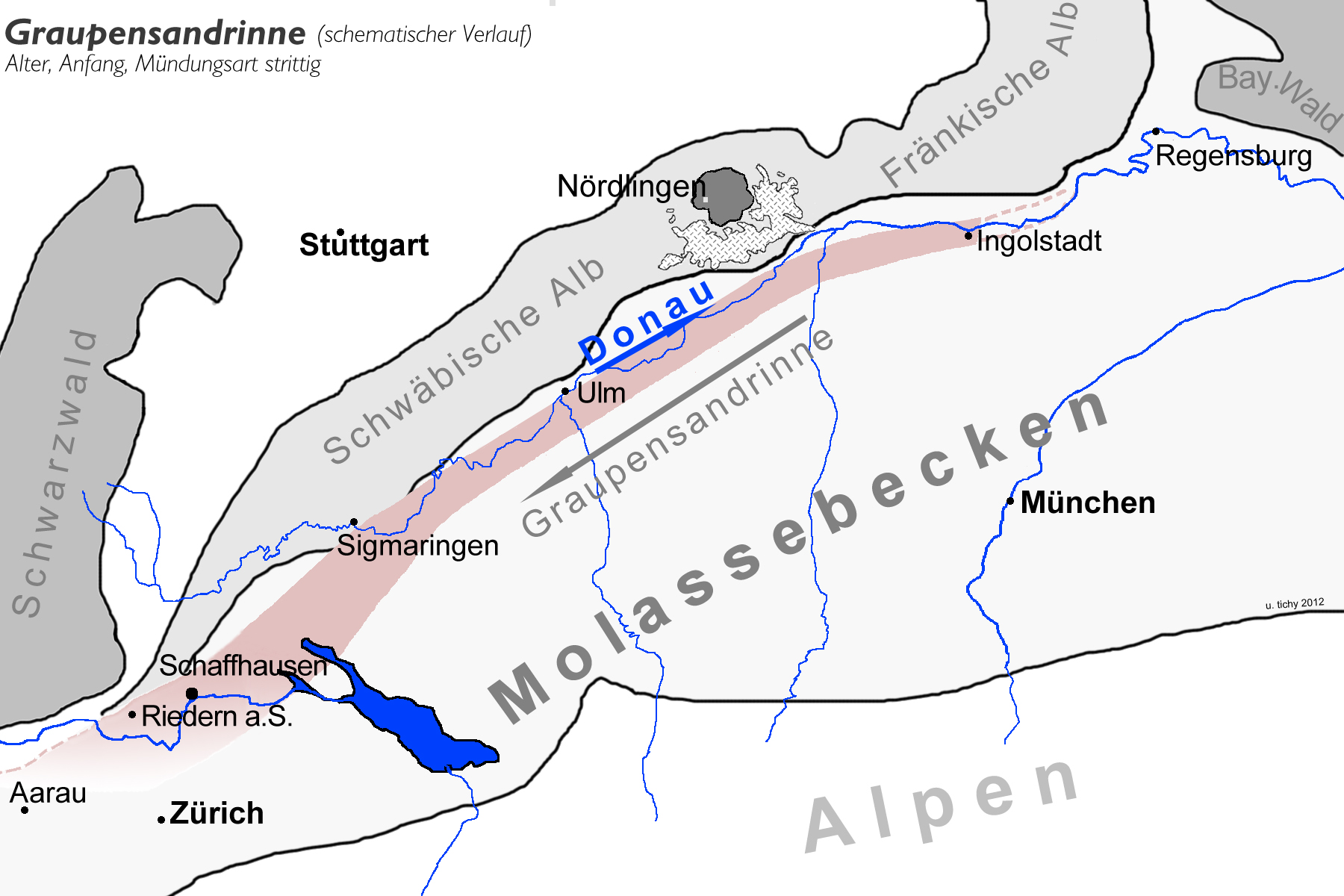 Sketch map showing the inferred location of the “Graupensandrinne”, an incised valley (10 to 25 km wide) at the northern margin of the Northern Alpine Foreland Basin (“Molassebecken”), which formed and was filled during late Early or Middle Miocene times.The Graupensand River Valley System drained the area north of the Alps from NE to SW towards what is now northern Switzerland (then covered by sea). Continued tectonic uplift of the Alpine Foreland and the Black Forest in the Late Miocene and Pliocene led to the development of the ancient Upper Danube river system (“Ur-Donau”), draining most of the German part of the Alpine Foreland from SW to NE. Drawn according to data given in Buchner et al. (1998),[1] current geography is based on GoogleMaps.